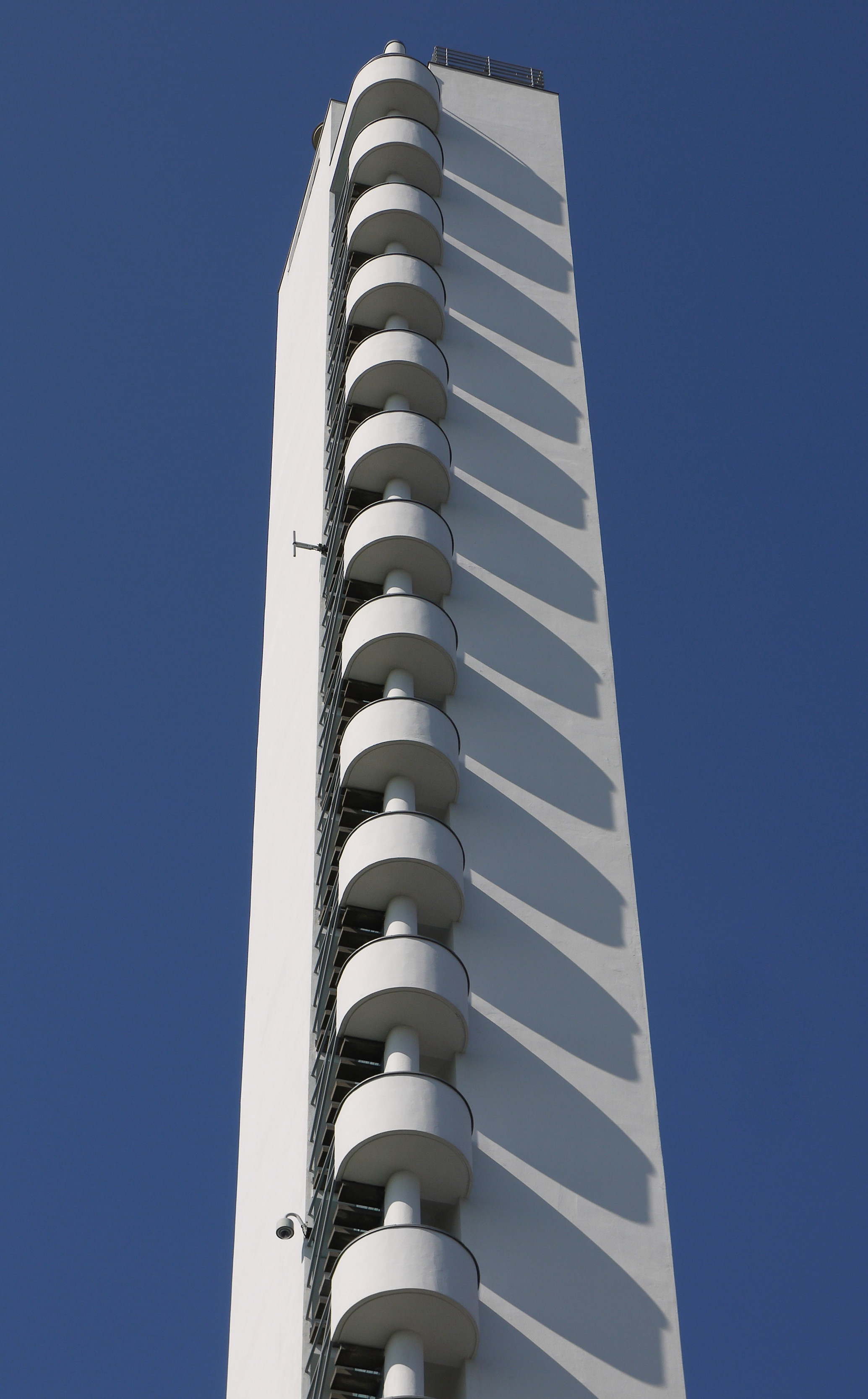 Helsinki Olympic Stadium Tower.